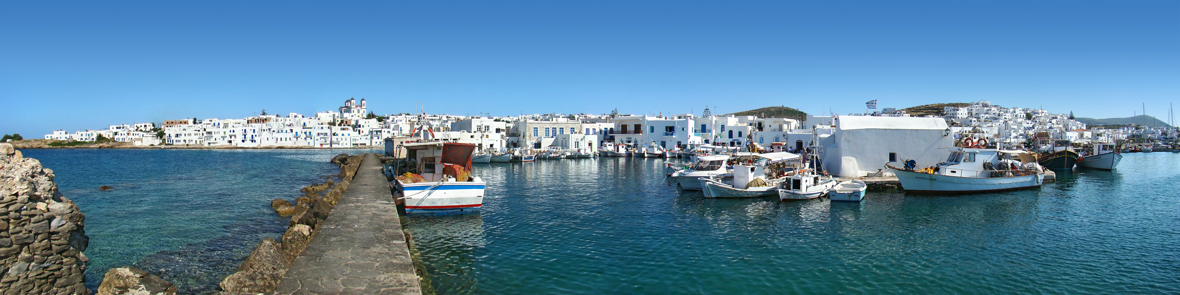 Naousa, Paros, Greece. Panoramic view from the small pier.